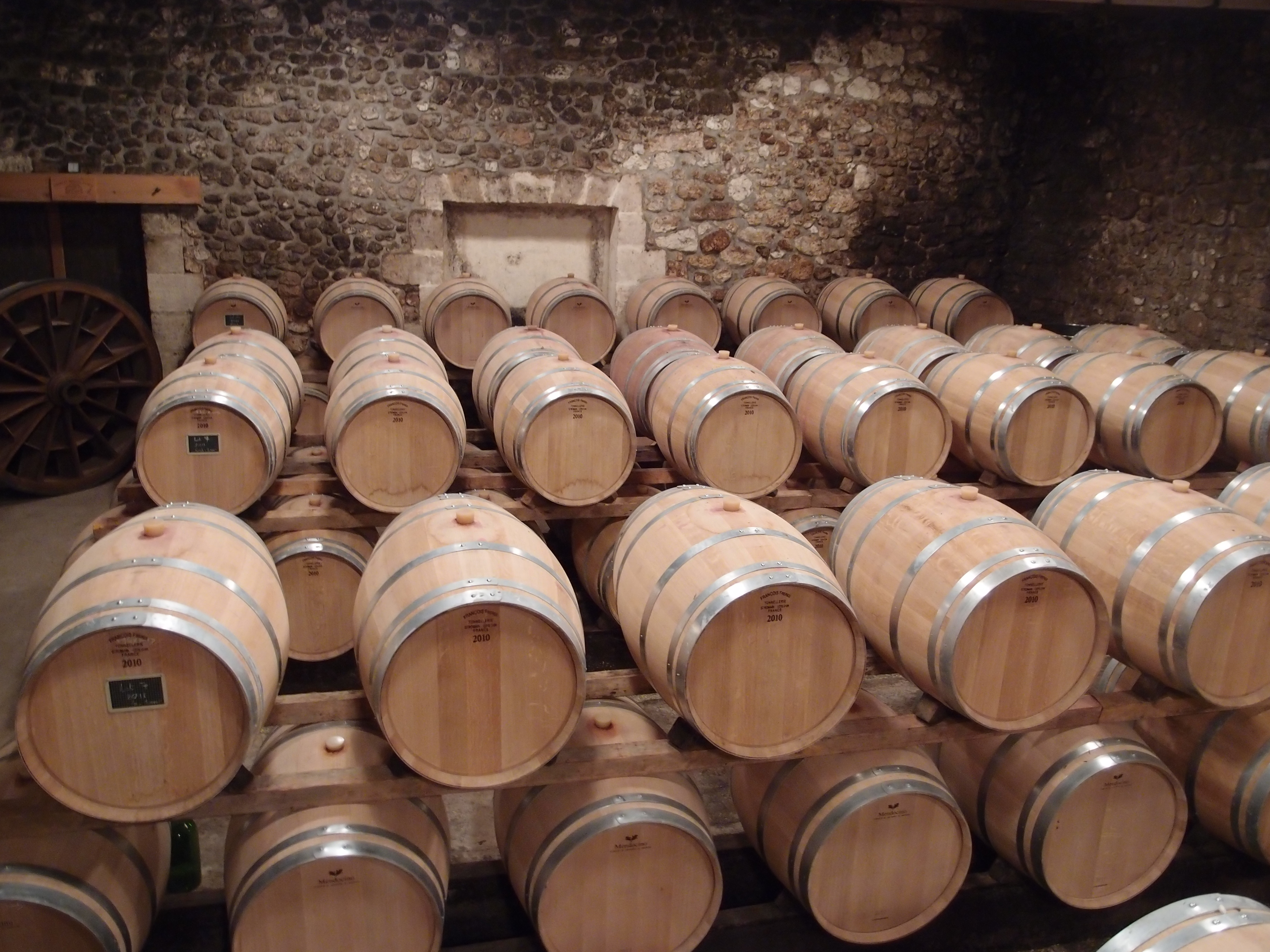 Vue complète du chai à barrique